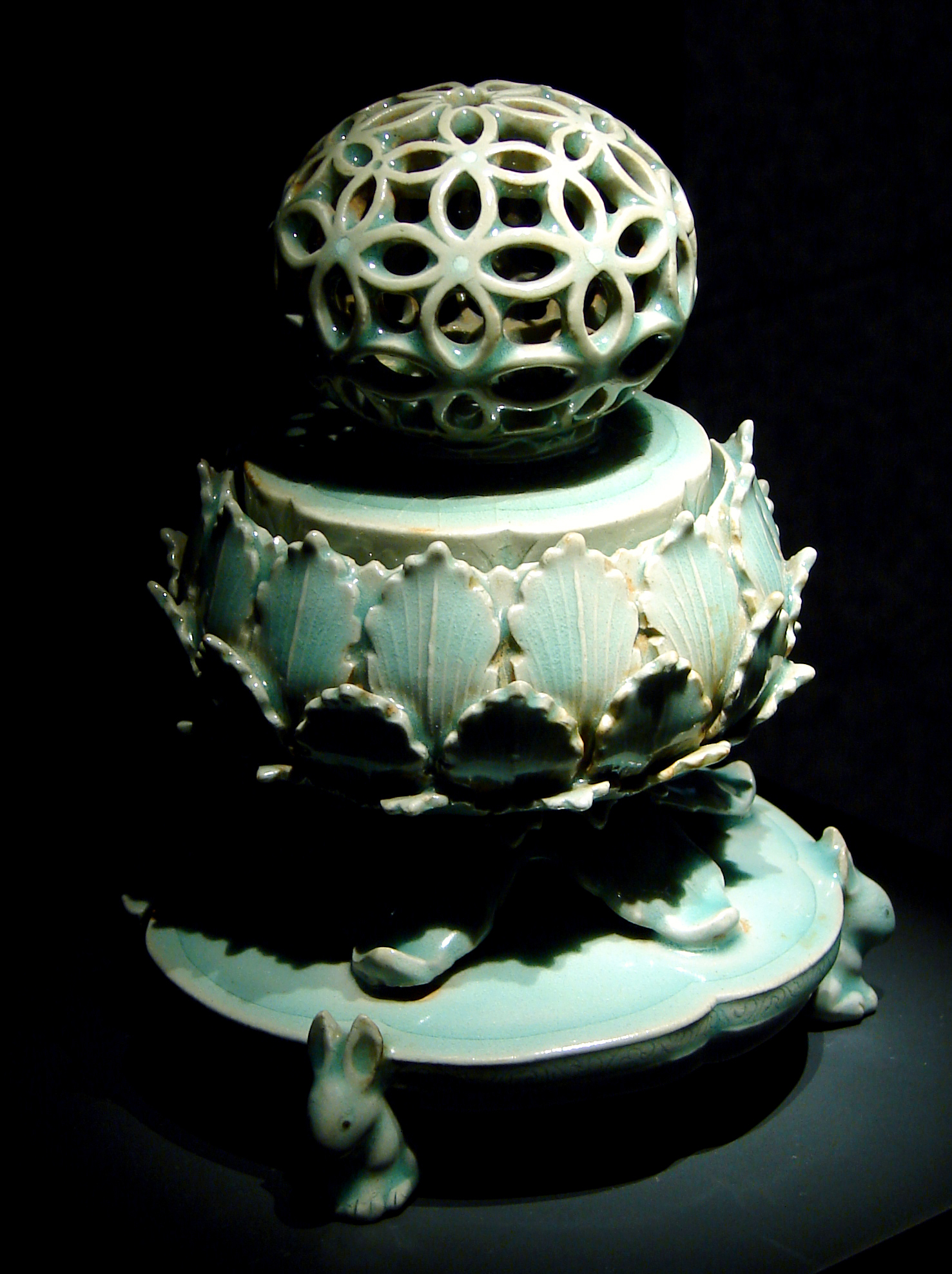 Celadon Incense Burner from the Korean Goryeo Dynasty (918-1392), with kingfisher glaze, is the National Treasure of South Korea #95 and is currently on display at the National Museum of Korea in Seoul. 12th century Korea.